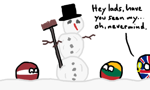 Polandball Advent calendar - 1st of December